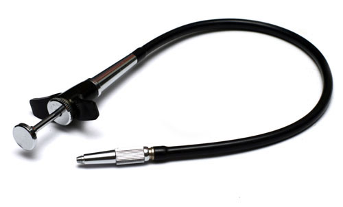 Old camera cable release. Using a push pin method and locking mechanism